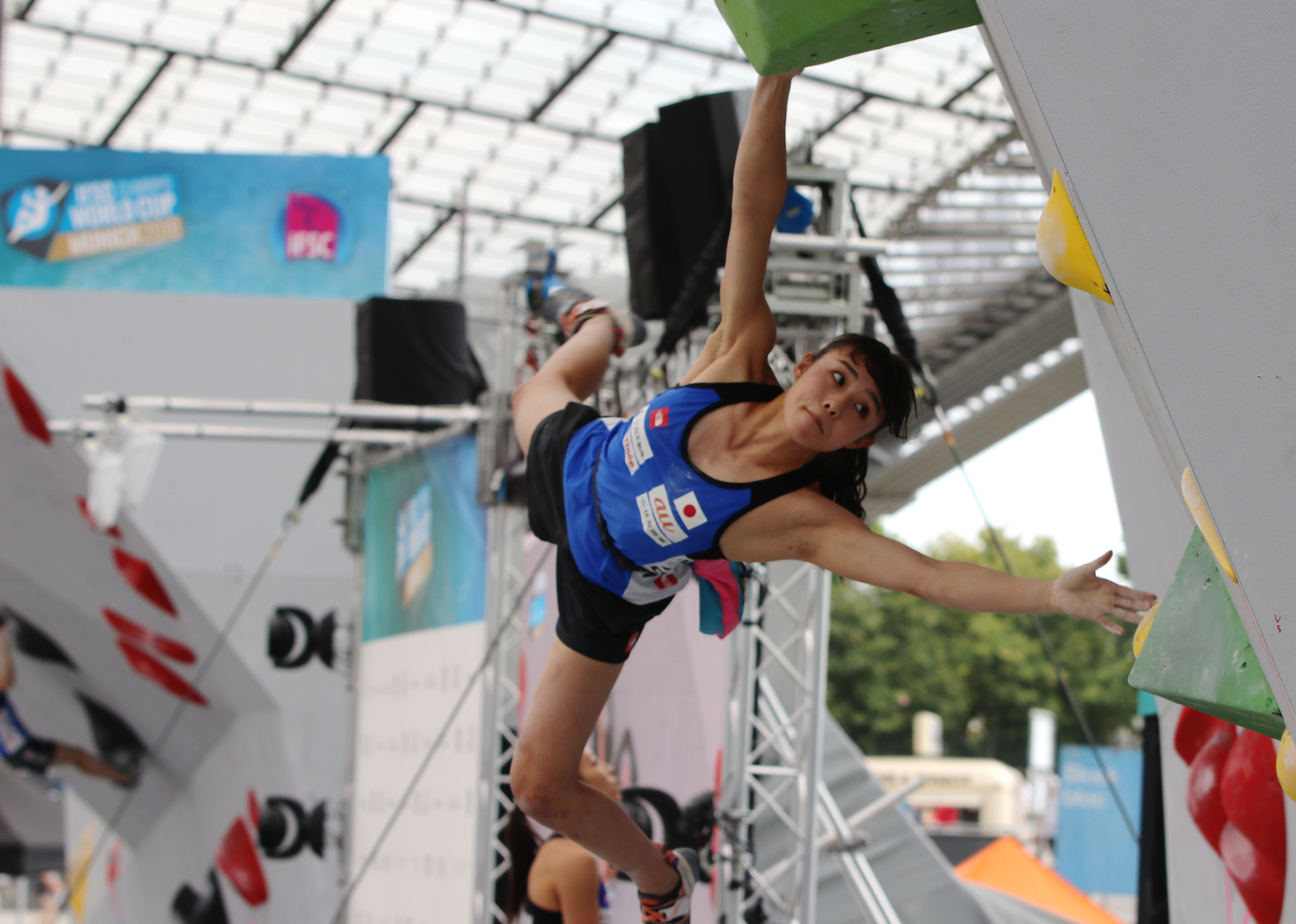 Boulder Worldcup 2018, Final Event in Munich 2018-08-18, Semi-Finals.